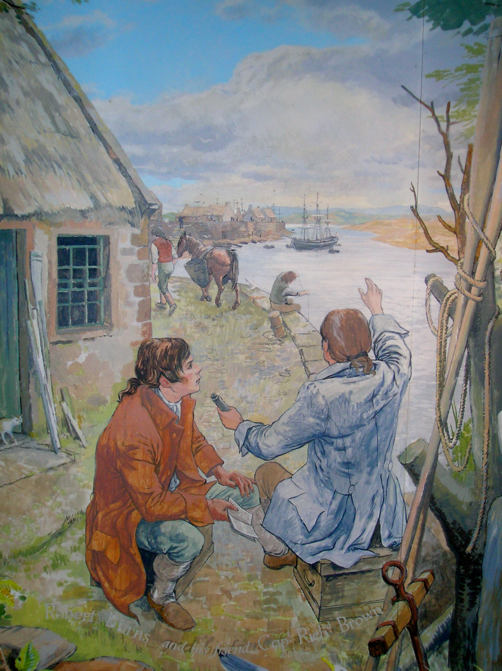 Captain Richard Brown and Robert Burns at Fullarton Harbour, irvine Burns Club, North Ayrshire, Scotland.